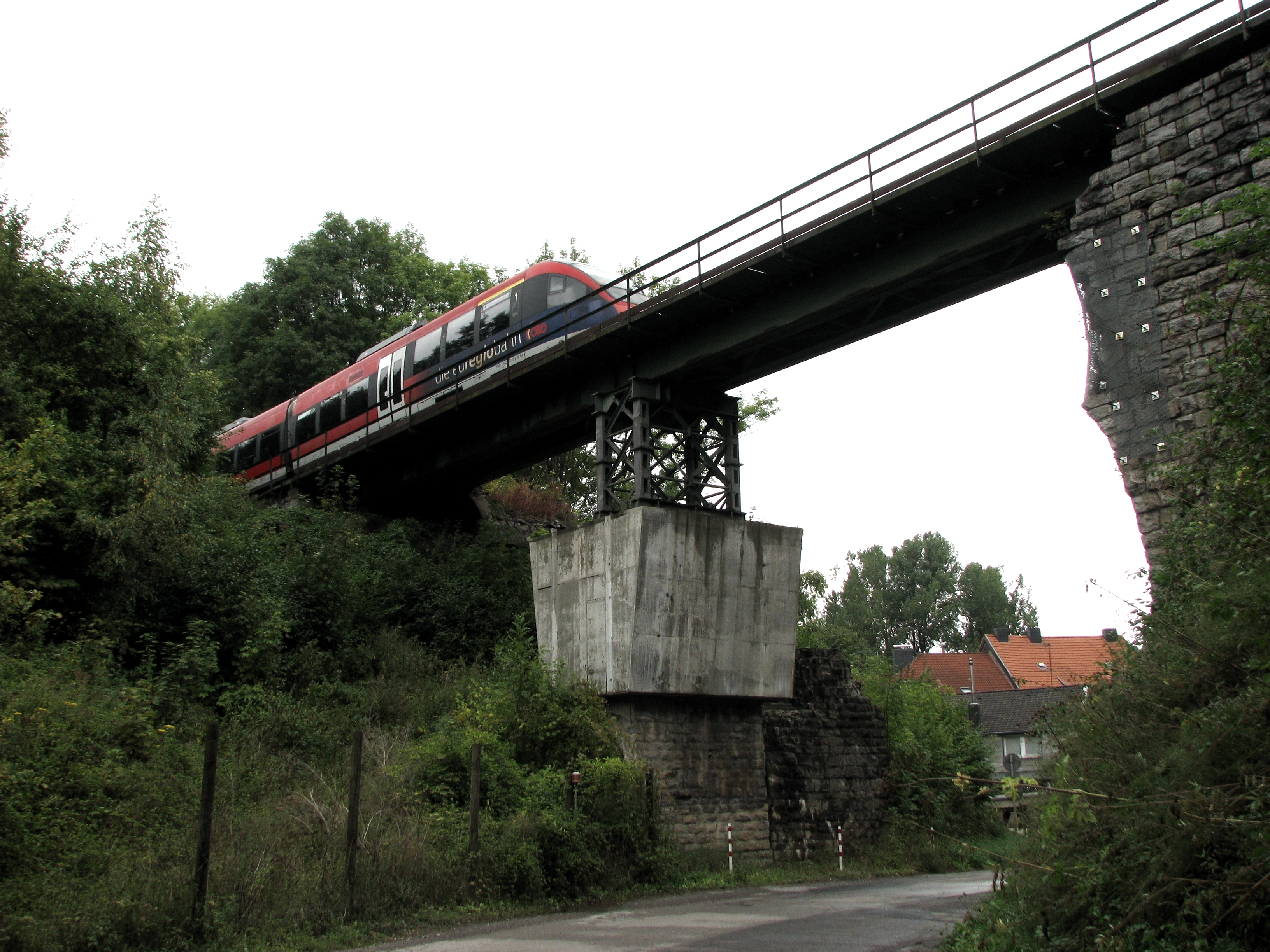 Bombardier Talent BR 643.2 der Euregiobahn auf dem Rüstbachtalviadukt in Stolberg, Stadtteil Oberstolberg, an der Bahnstrecke Stolberg–Eupen.